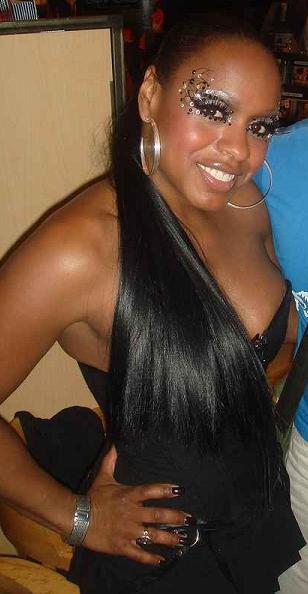 Ultra Naté at virgin megastore union square